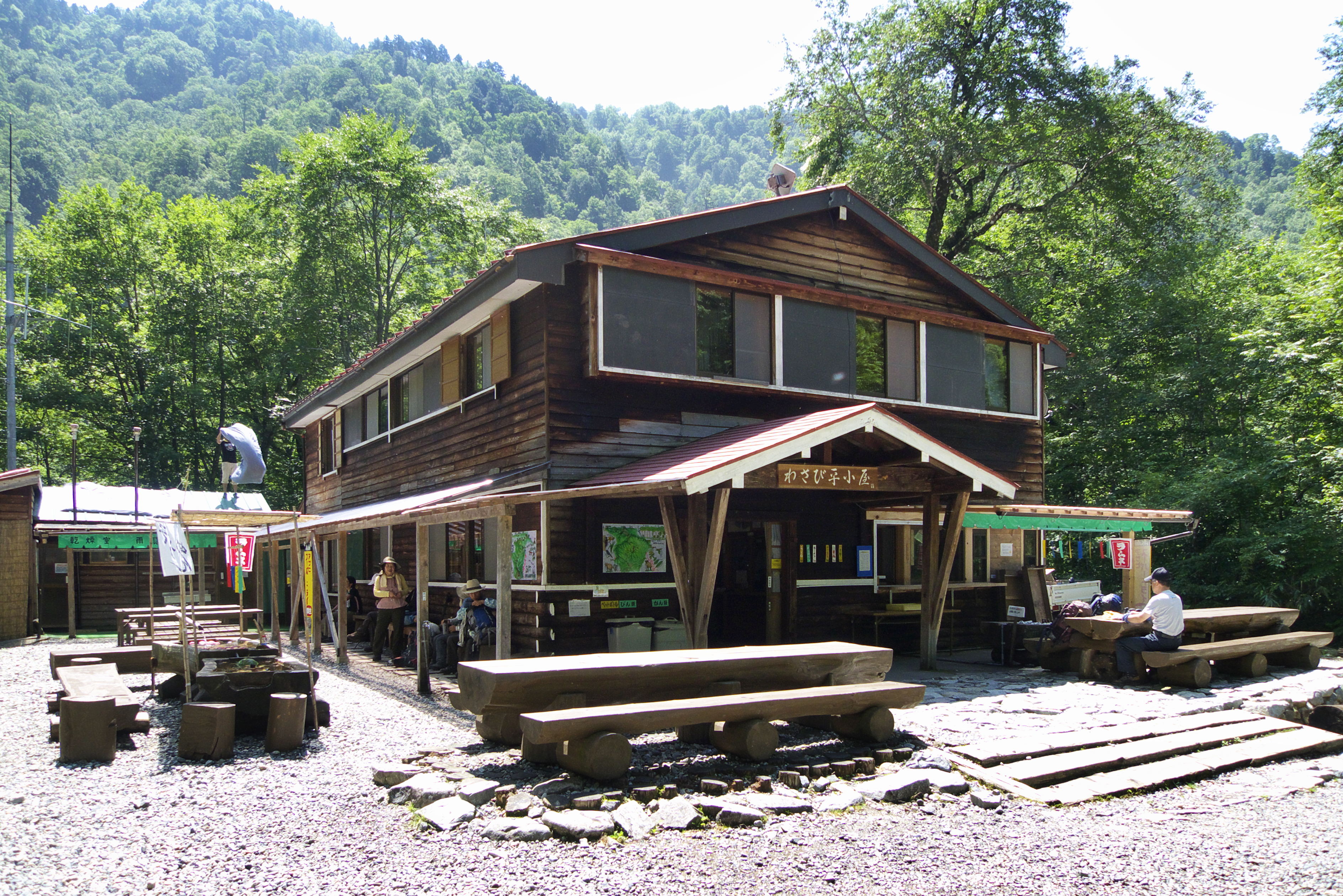 Wasabidairagoya ("Wasabidaira Hut") in Takayama City, Gifu Prefecture, Japan